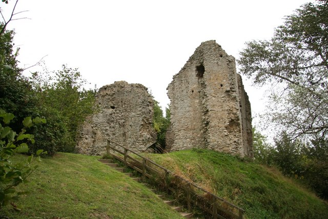 Sutton Valence Castle The remains of the keep of Sutton Valence Castle with spectacular views across the Weald, built in the mid-12th century by Baldwin de Bethune, Count of Aumale